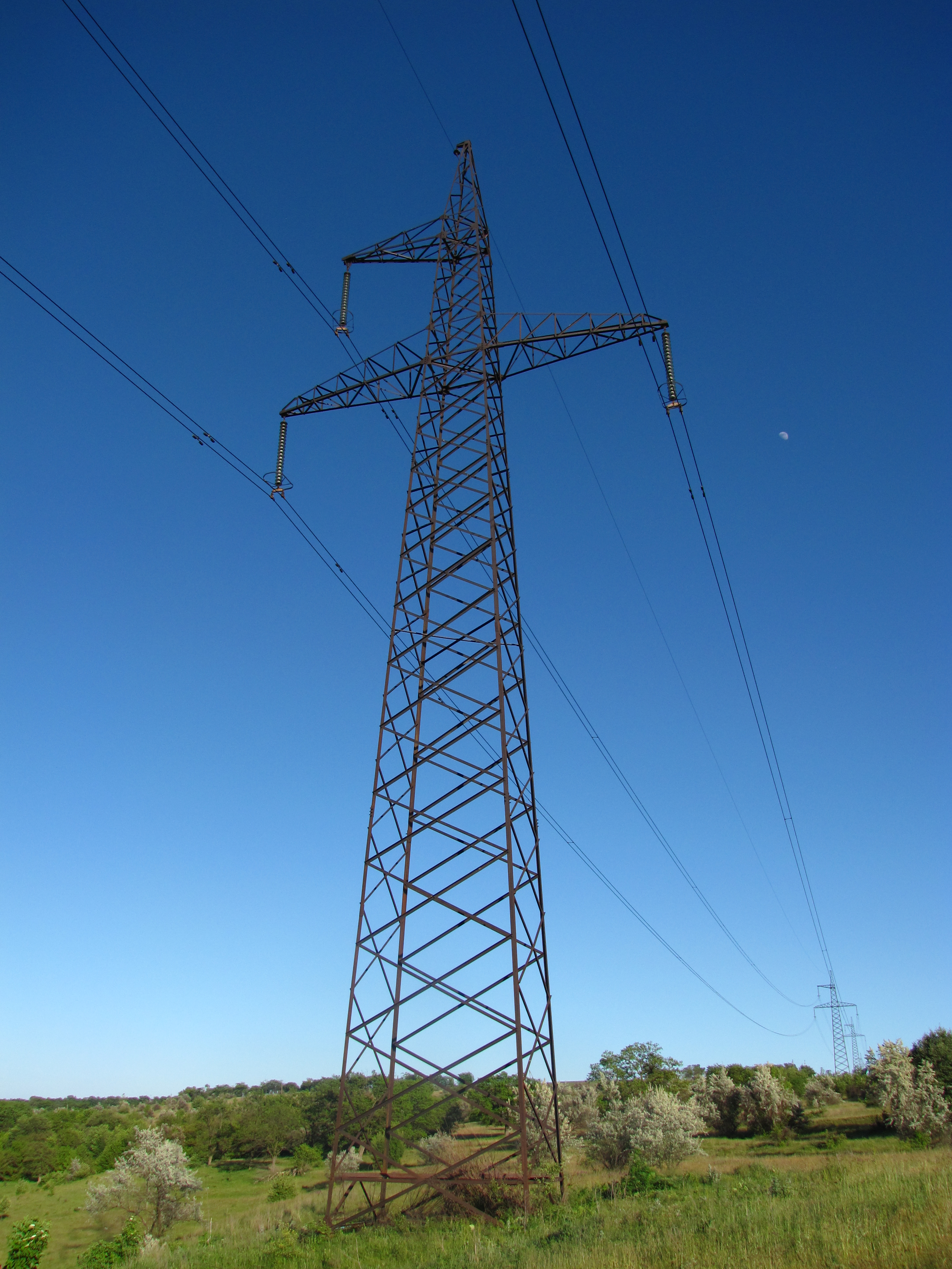 Suspension electricity pylon (single-circuit 330 kV) in Ukraine